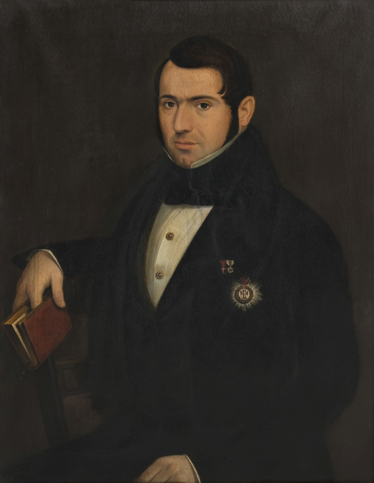 Portrait painting of José Joaquim Gomes de Castro, 1st Viscount and Count of Castro (1794-1878)